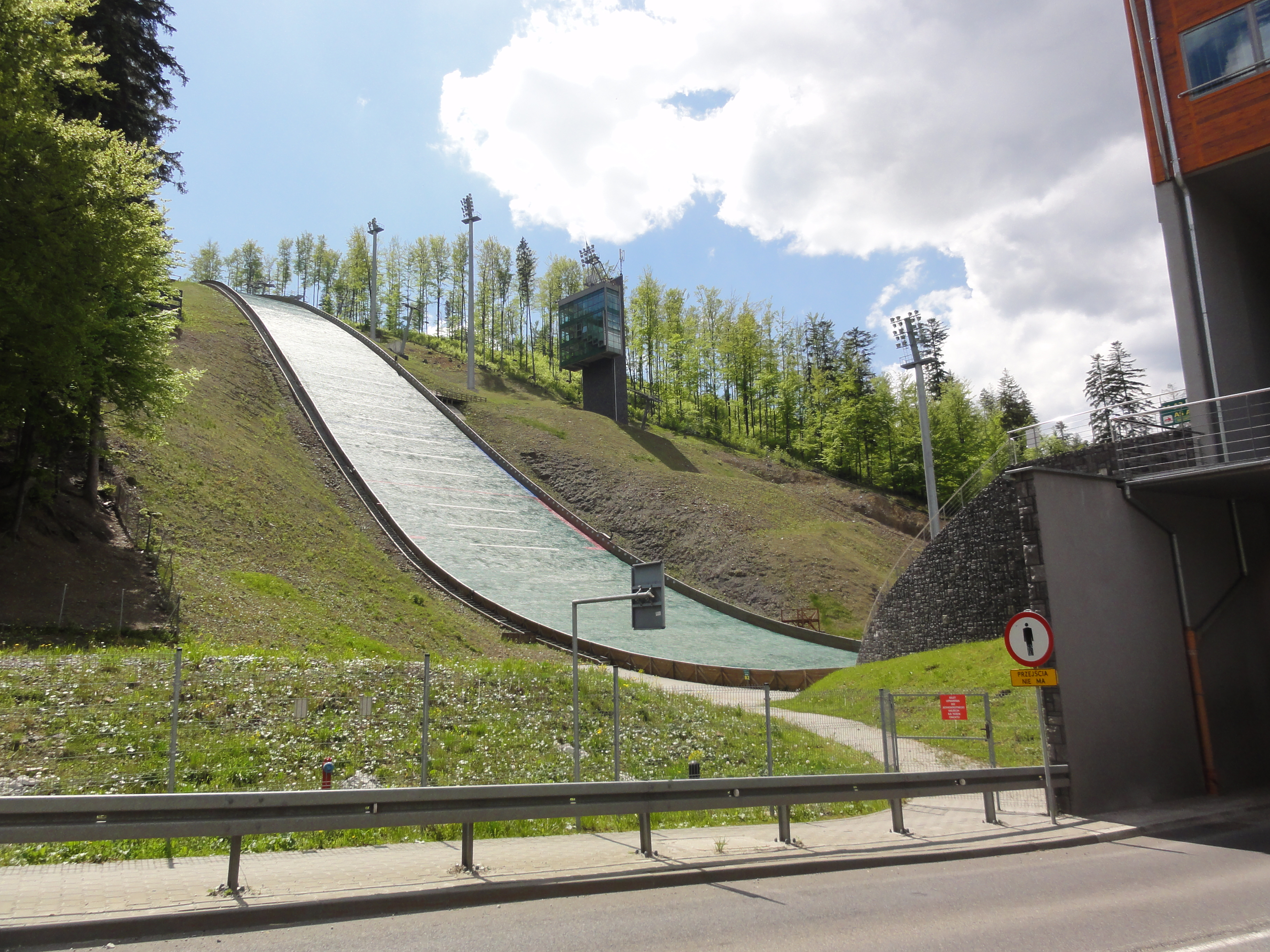 Wisła Malinka Ski Jumping Hill